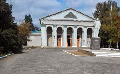 Central square of Chonhar, Kherson Oblast, Ukraine